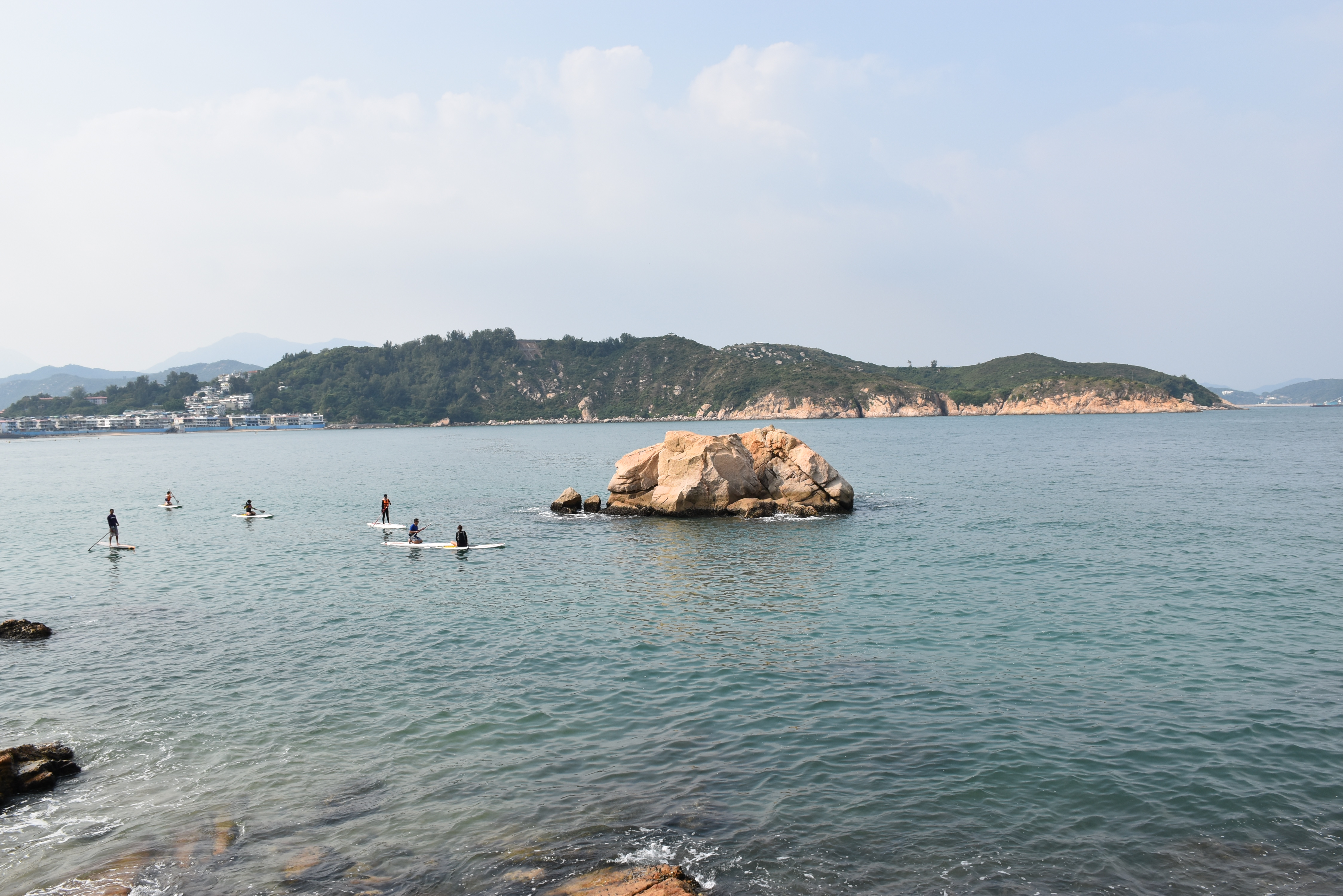 loaf